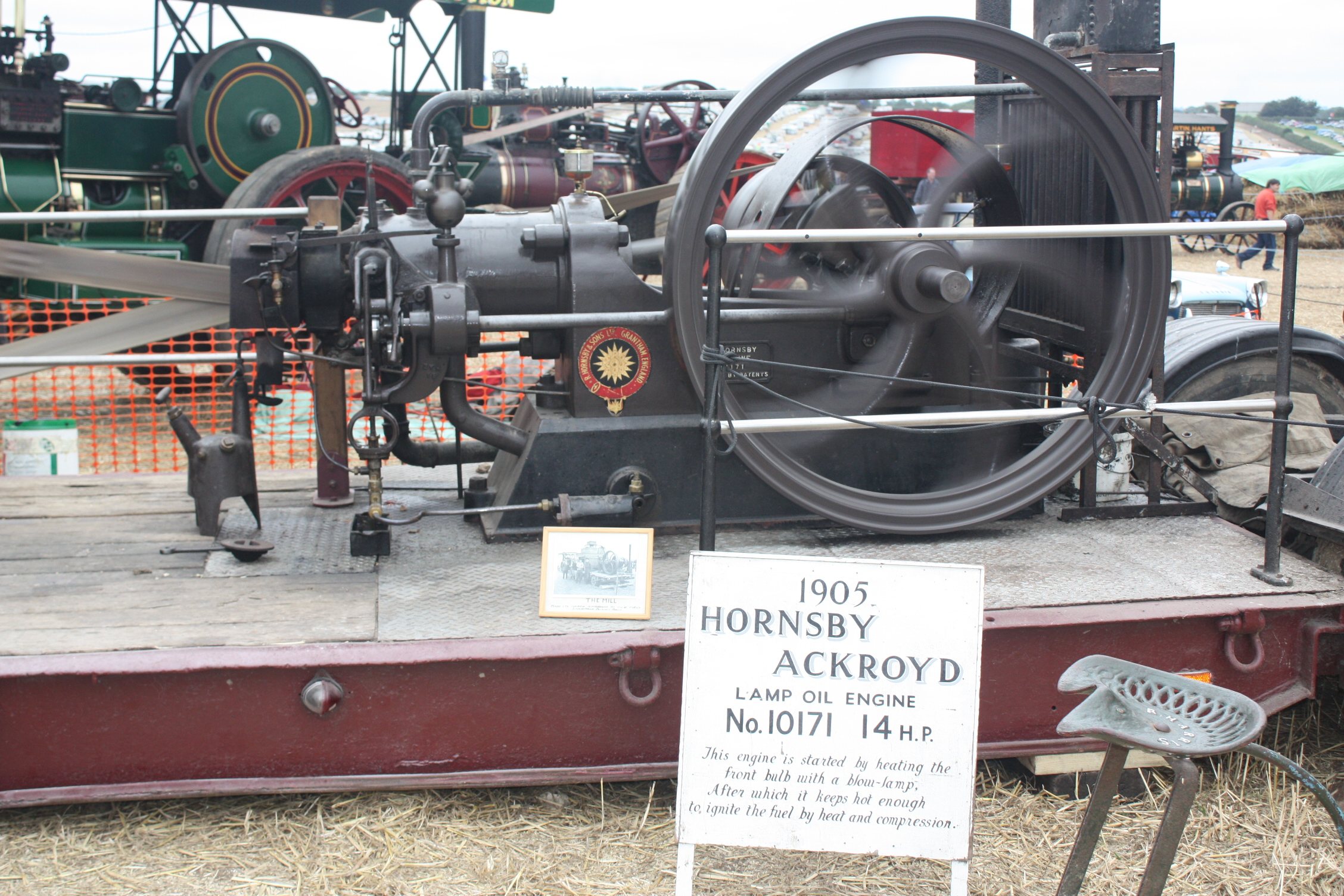 A Hornsby Acroyd 14 hp lamp oil engine of 1905 driving a flour mill at "Great Dorset Steam Fair"